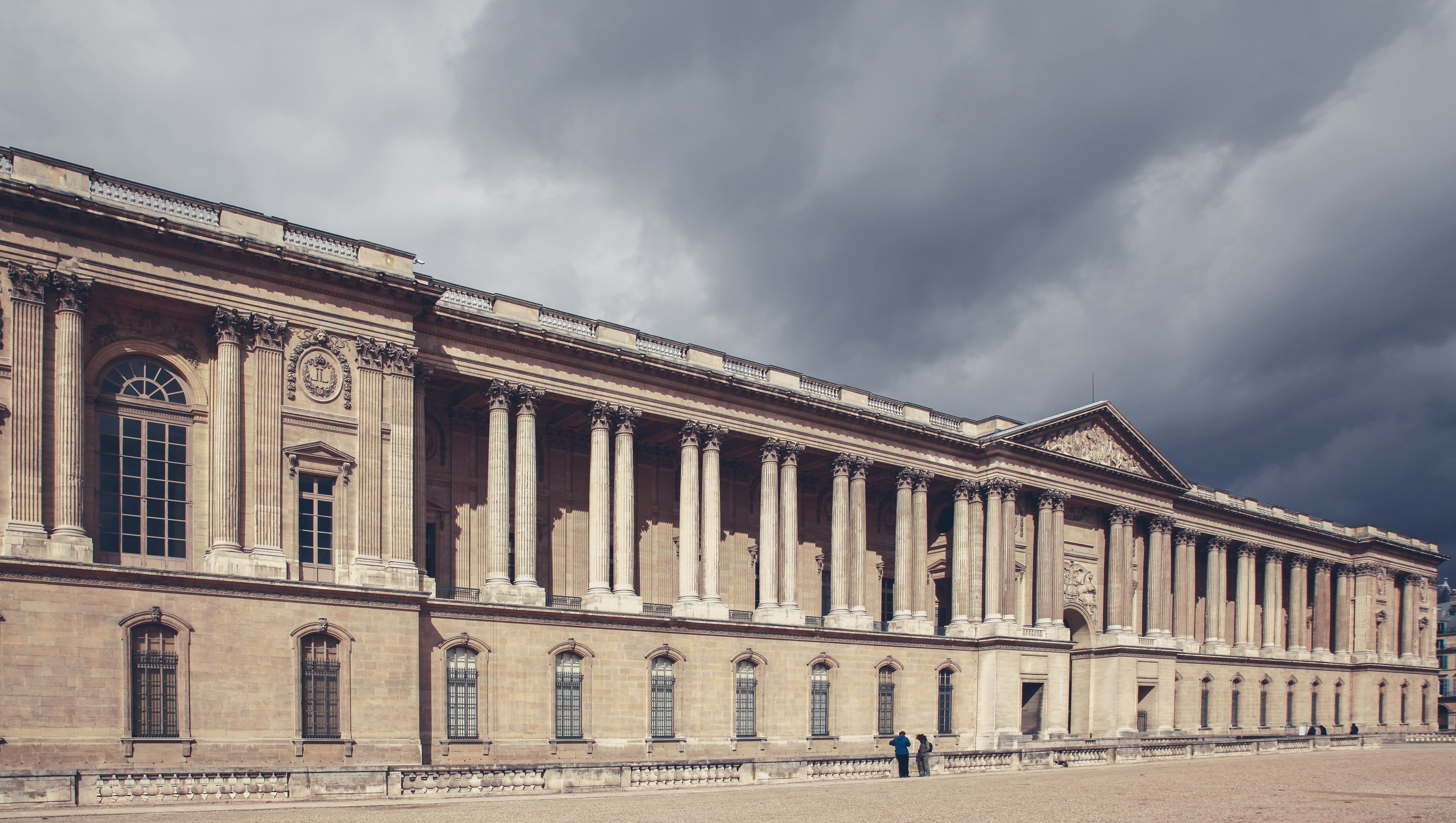 East facade of Louvre, Paris.